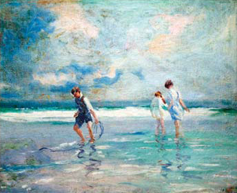 A painting by Fred Wagner (still need to figure out the title and other details).